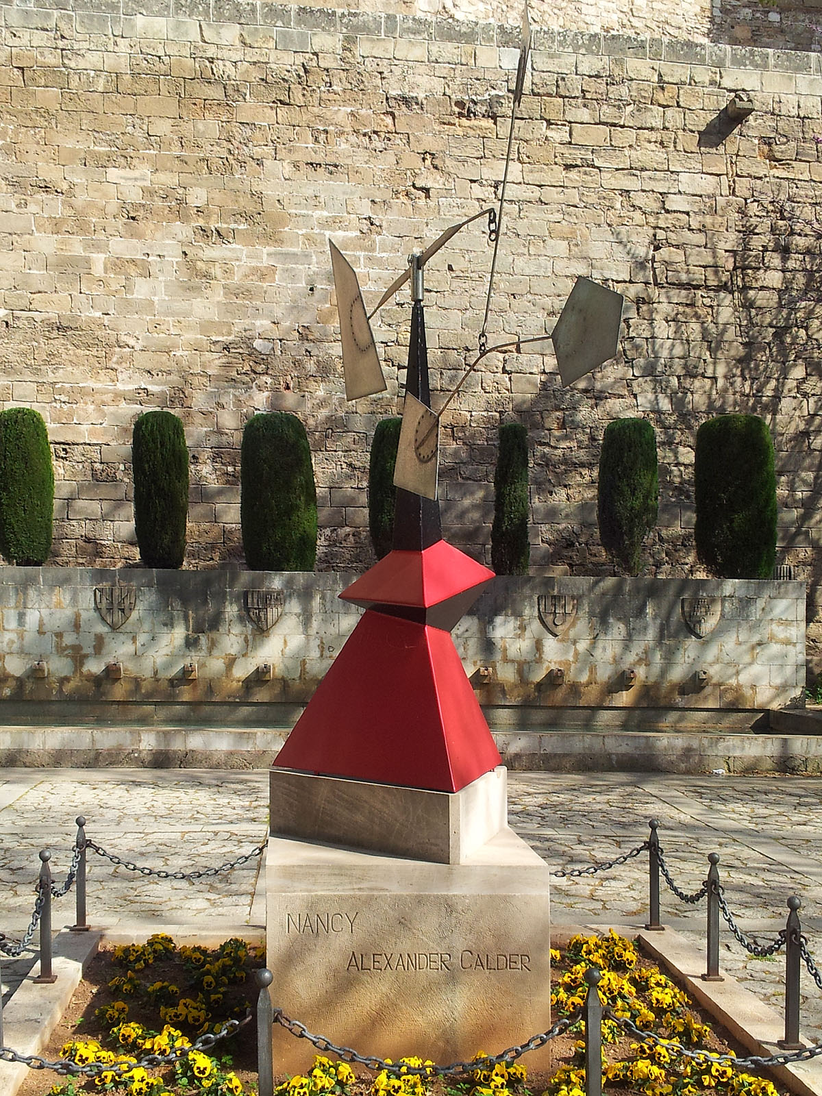 Alexander Calder, Nancy, 1972, Palma de Mallorca, Parc de la Mar